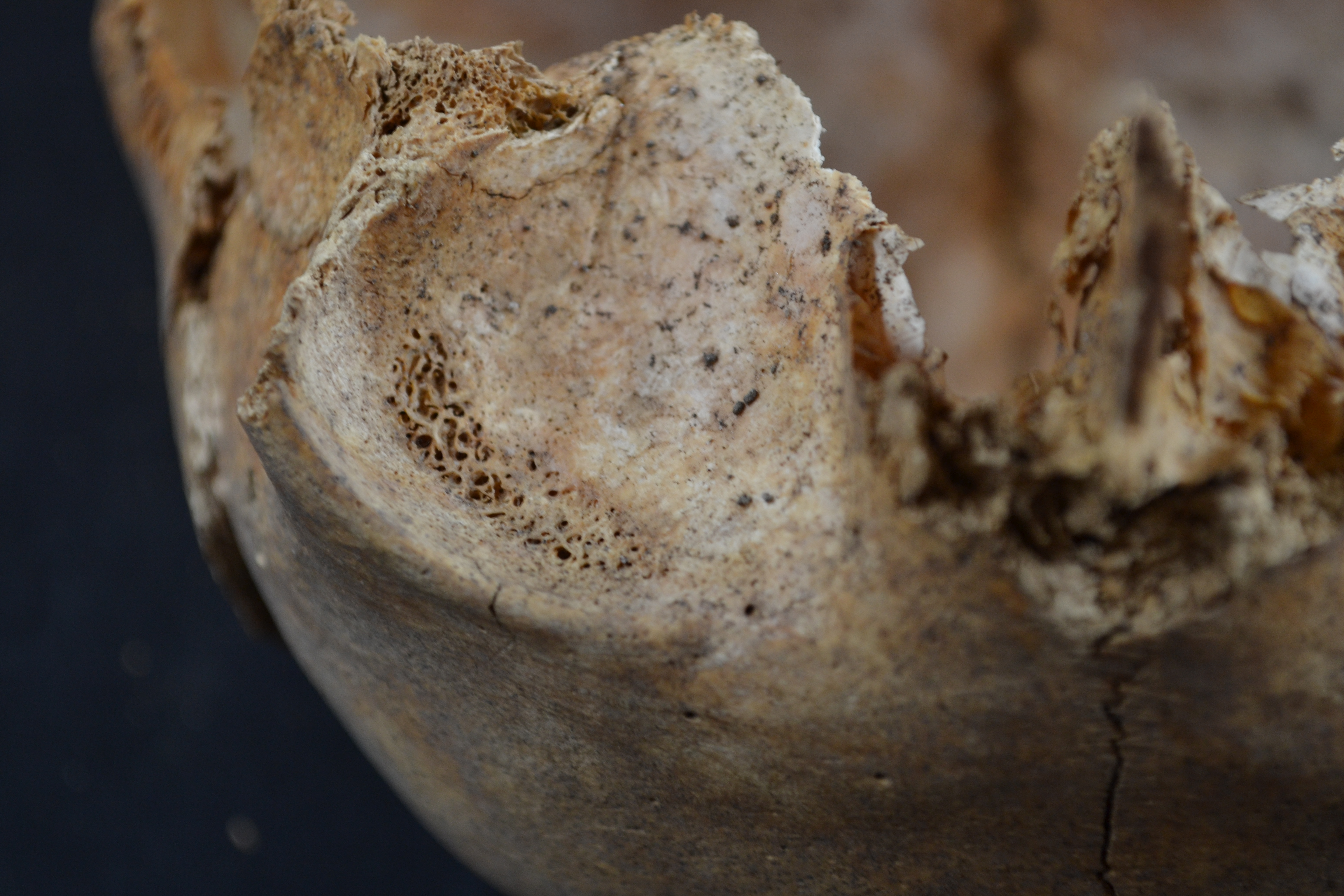 Cribra Orbitalia in a young child from the medieval site of Helgeandsholmen, Stockholm, Sweden. Porosities in the orbital roof (cribra orbitalia) are among the most frequent pathological lesions found in ancient skeletal populations. Characterized by localized areas of spongy or porous bone tissue, the reason is often contributed to anemia (iron deficiency), but also scurvy (vitamin C deficiency) and rickets (vitamin D deficiency). It can therefore be used to diagnose some sort of dietary deficiency in ancient populations, as well as an indicator of infectious disease and childhood stress. The picture was taken for and used in a master thesis in Osteoarchaeology, focusing on paleopathology.